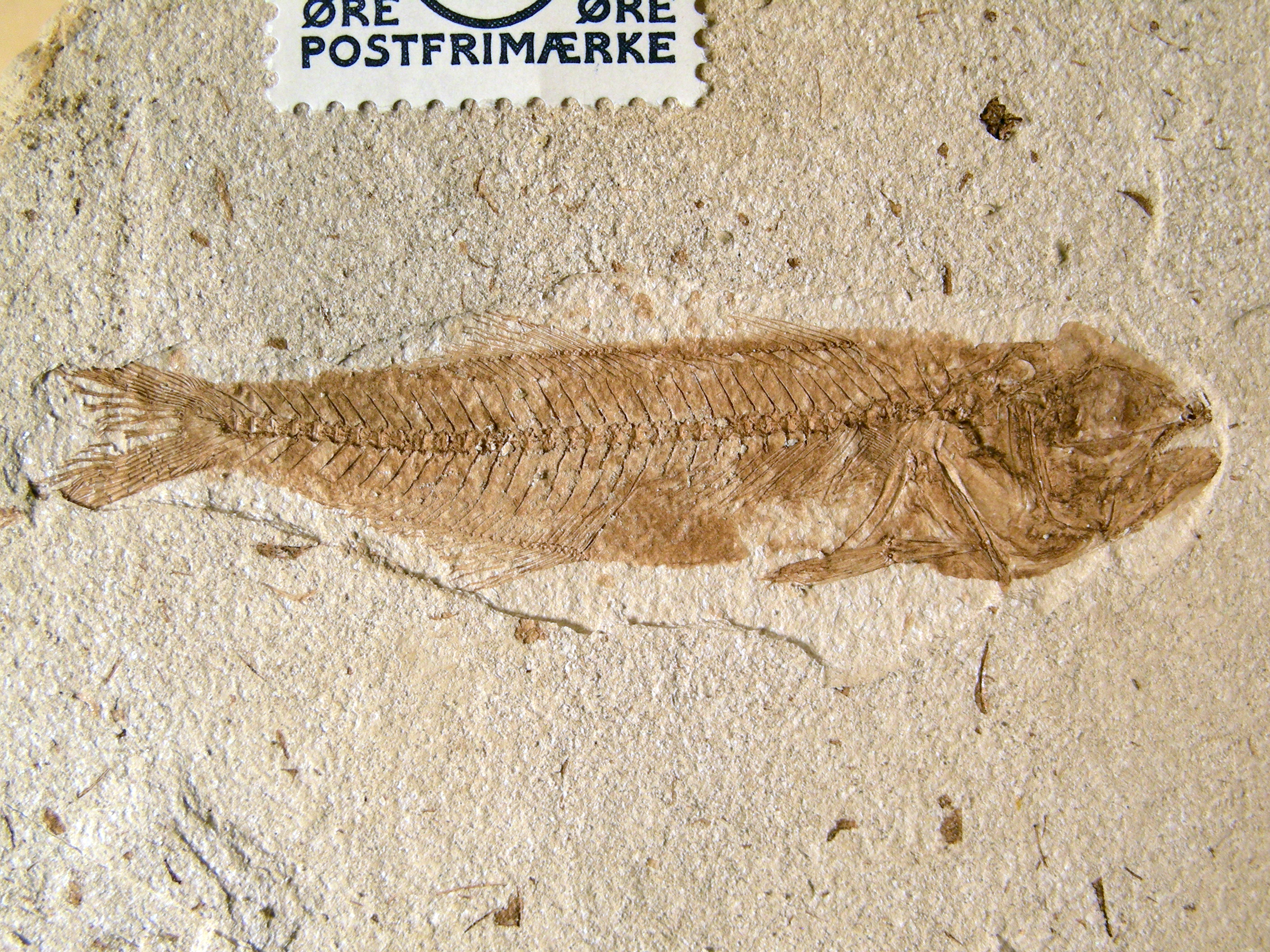 Percomorph teleost fish from the Eocene Fur Formation on Fur (island), Denmark.